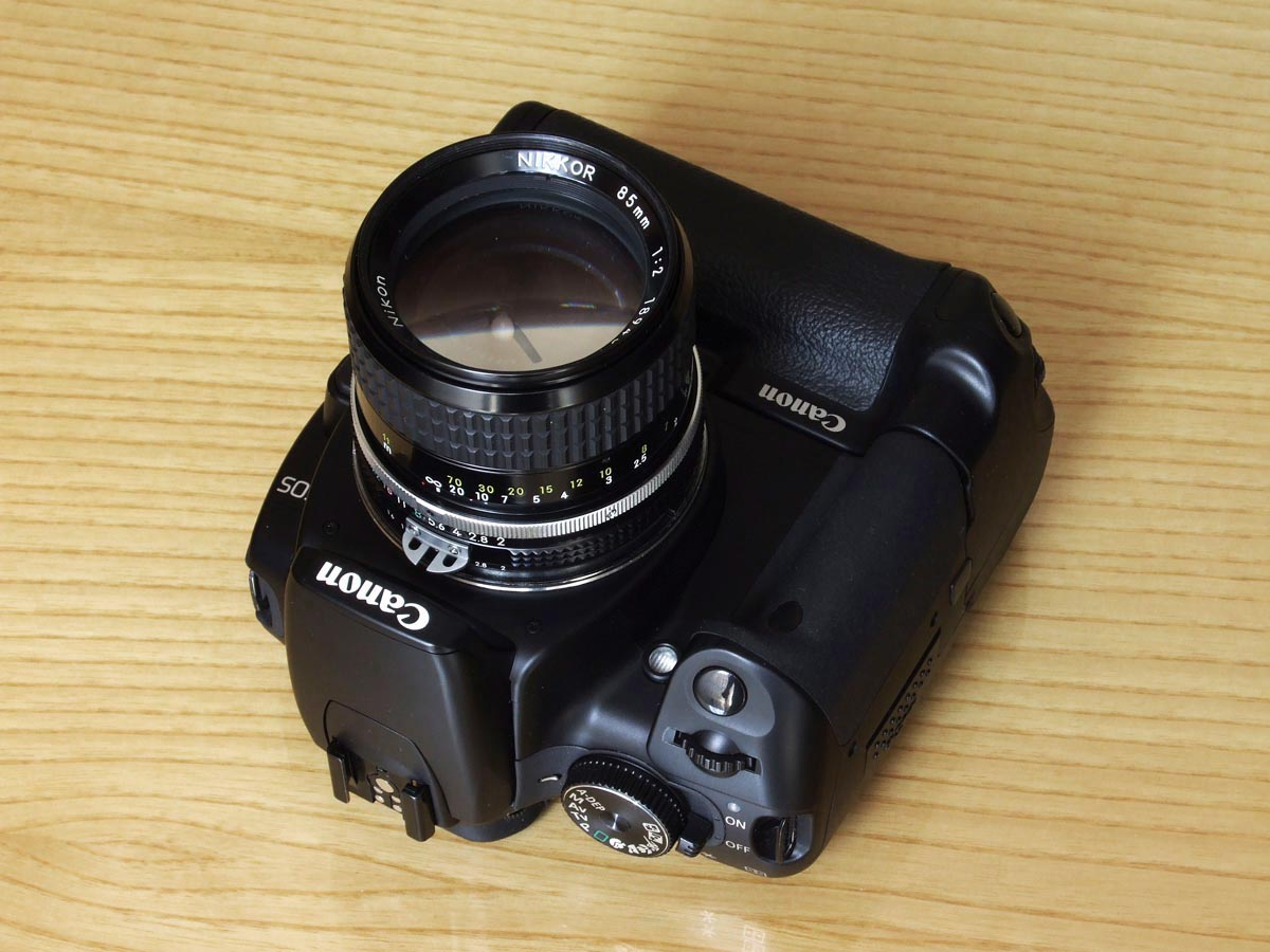 Canon EOS 400D body with a 85 f/2.0 Nikon AI lens mounted on it.